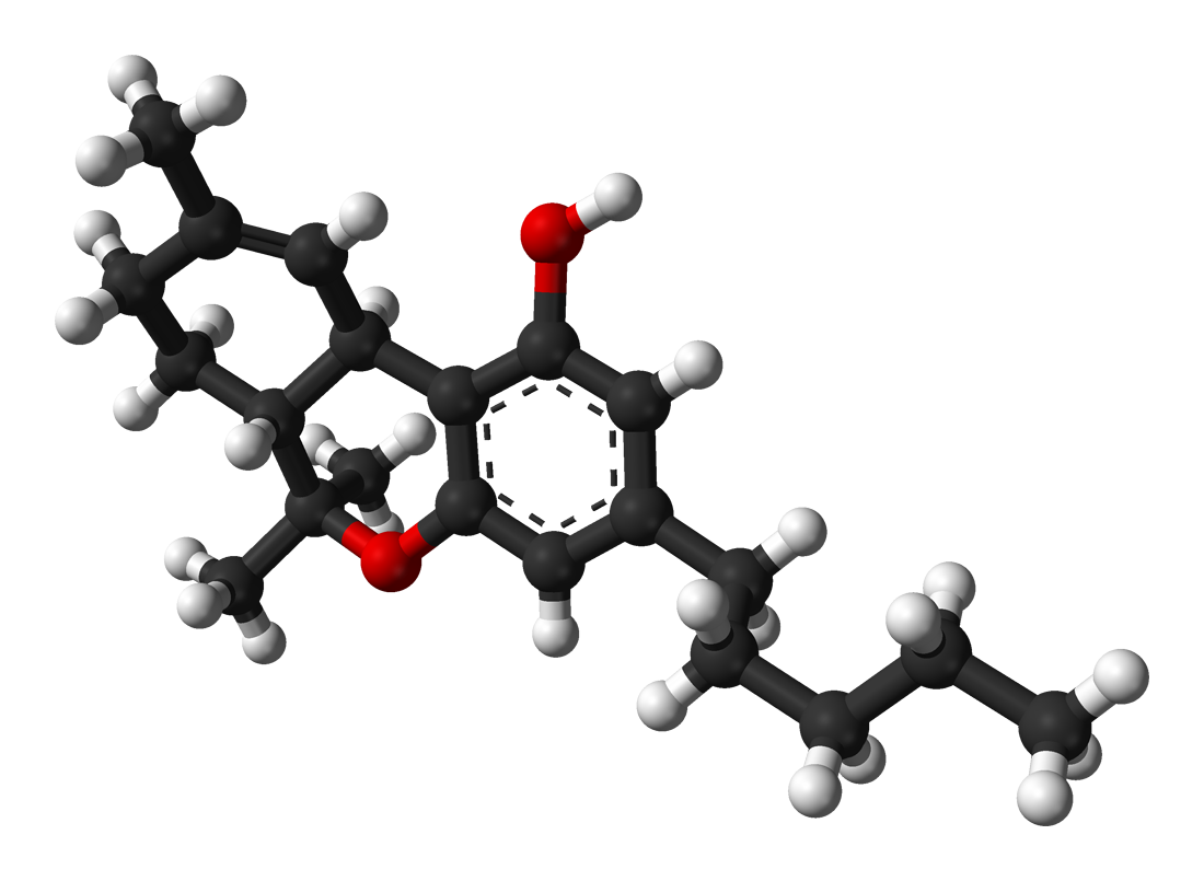 Ball-and-stick model of the Δ9-tetrahydrocannabinol molecule, C21H30O2 . Based on the molecular structure of Δ9-THC tosylate, from W. Gul, P. Carvalho, D. W. Berberich, M. A. Avery and M. A. ElSohly (September 2008). "(6aR,10aR)-6,6,9-Trimethyl-3-pentyl-6a,7,8,10a-tetrahydro-6H-benzo[c]chromen-1-yl 4-methylbenzenesulfonate". Acta Cryst. E64 (9): o1686.